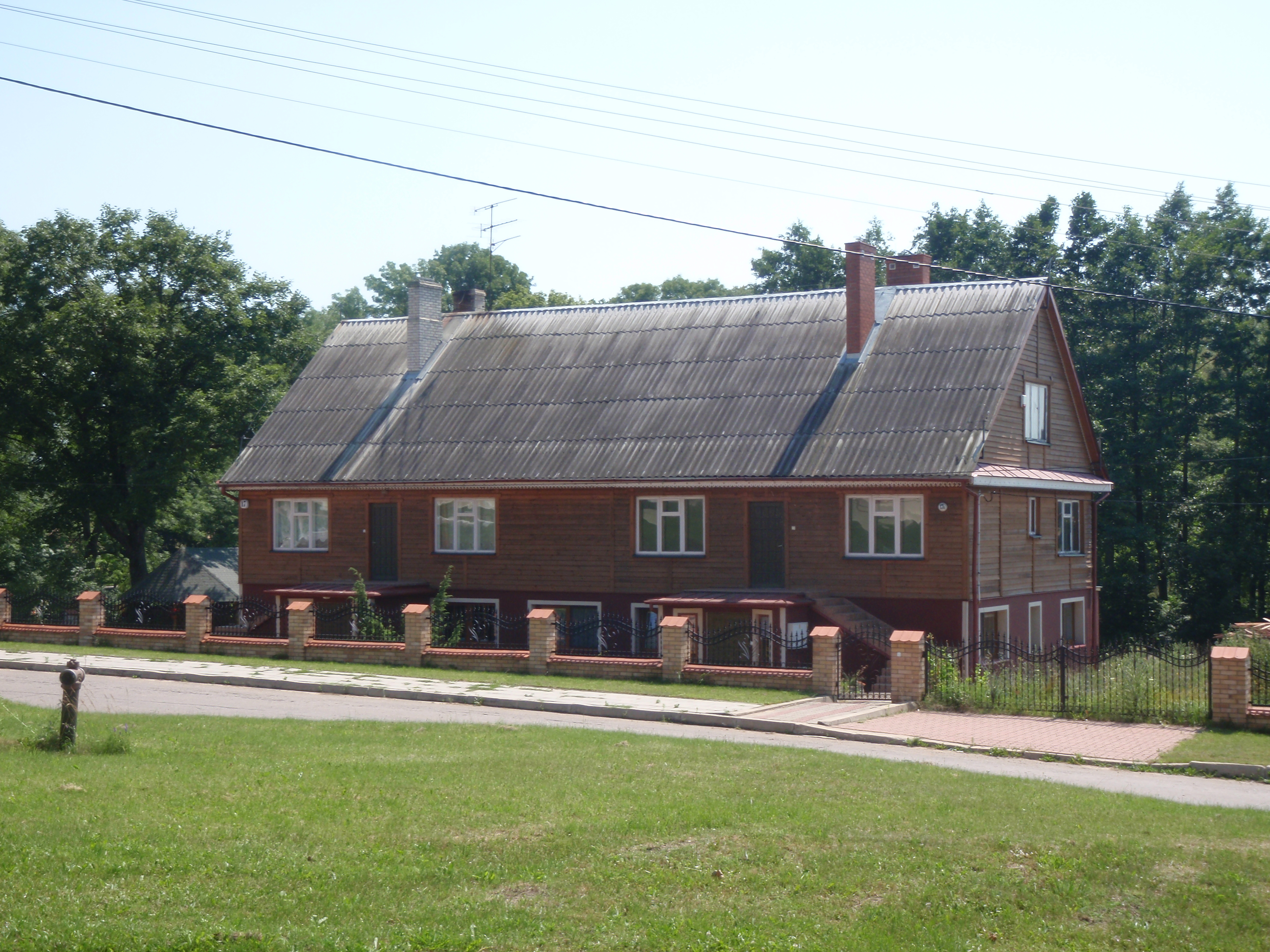 house no 17 in village Łosinka, POLAND